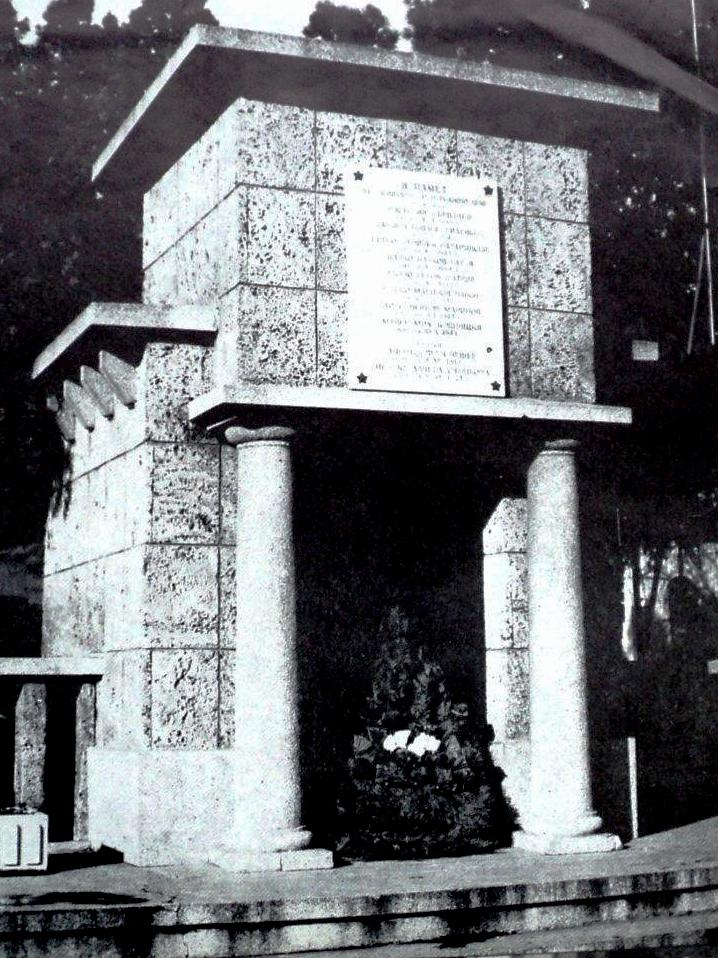 no